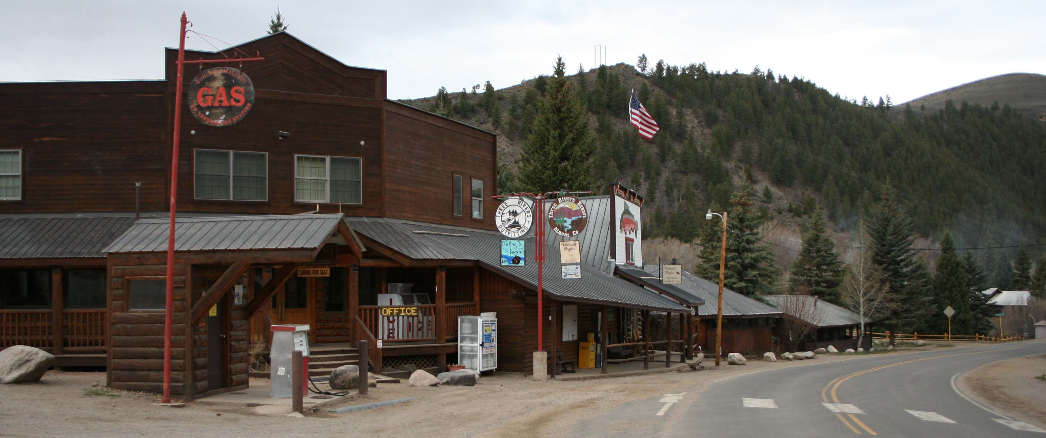 The town of Almont, Colorado. It is located in Gunnison County, near where the Gunnison River begins.